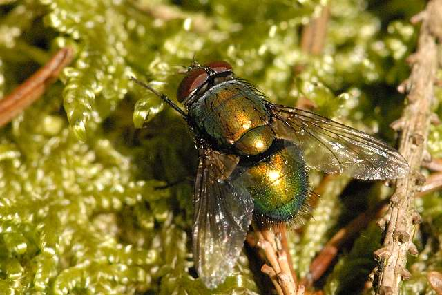 Lucilia spec from Commanster, Belgian High Ardennes .